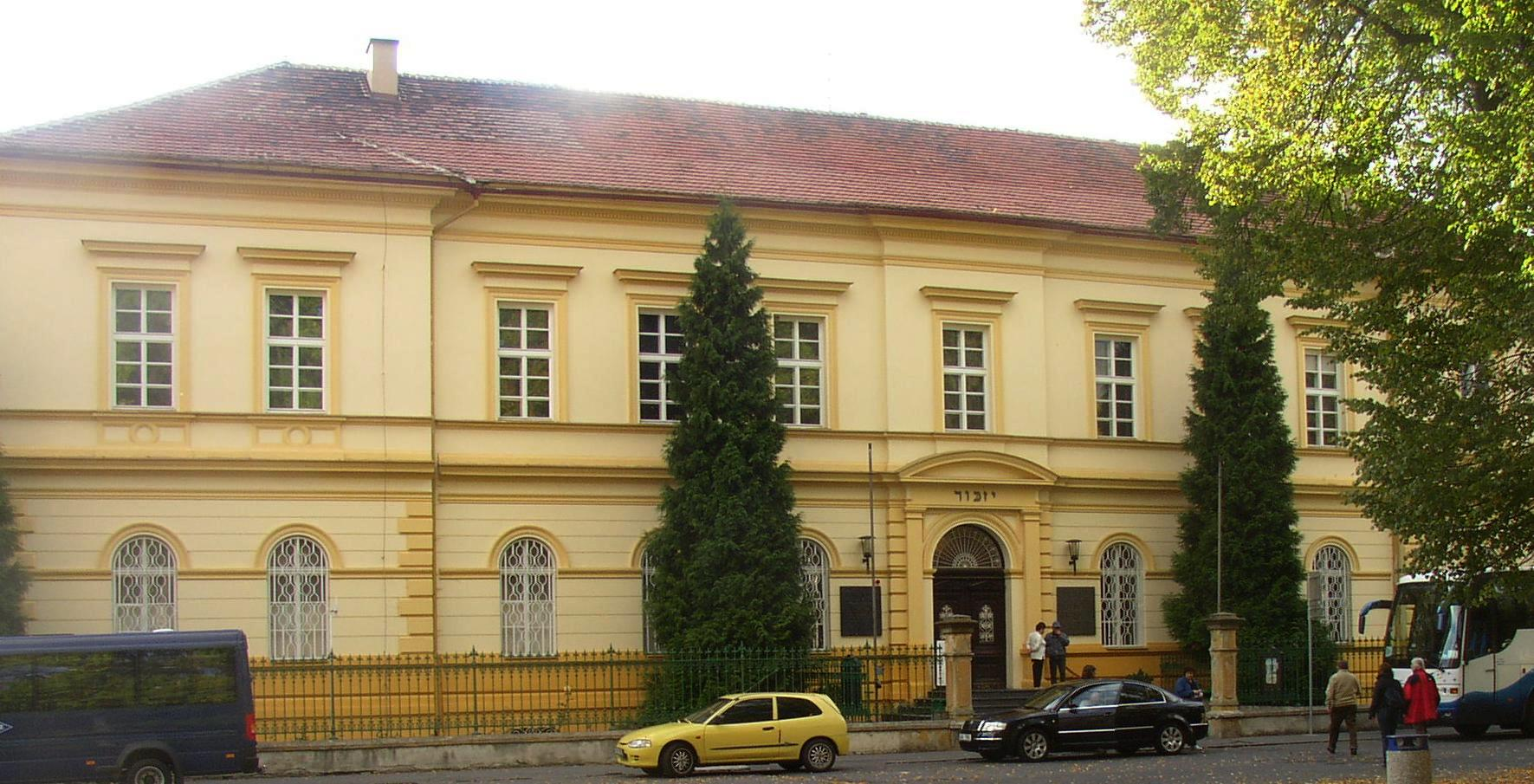 Ghetto Museum in fromer school building next to NE corner of central square of Terezín.